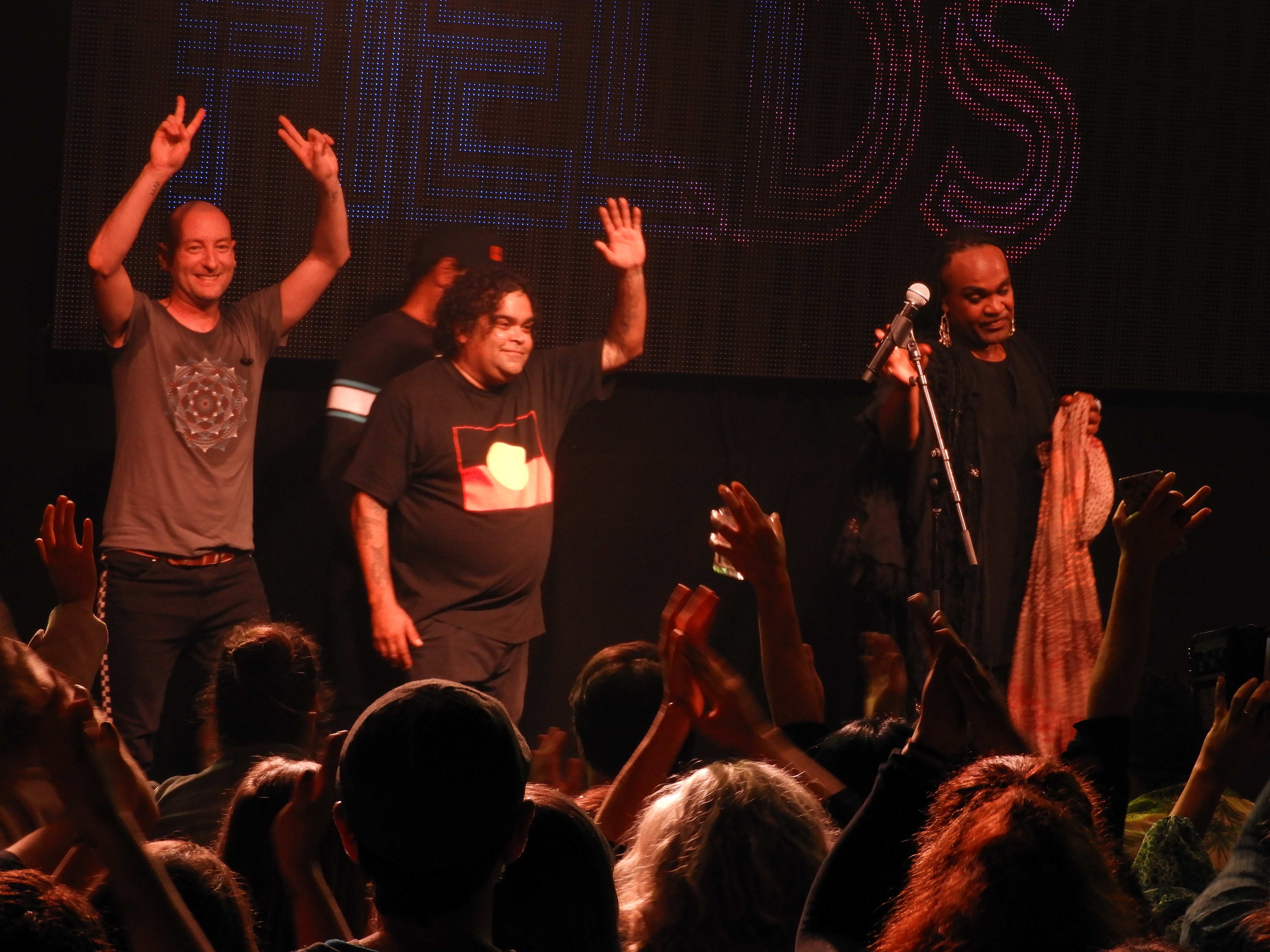 Electric Fields bids farewell to their hometown audience in Adelaide, South Australia.